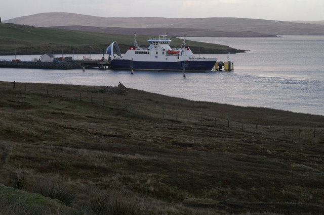 Toft Looking down towards the ruined croft on the shore, with the Yell Sound ferry at Toft pier and Yell in the distance.